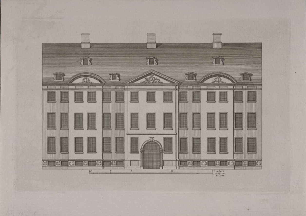 Copperprint engraving of van Hemerts Gaard on Købmagergade (now No. 44) in Copenhagen, Denmark. Demolished.